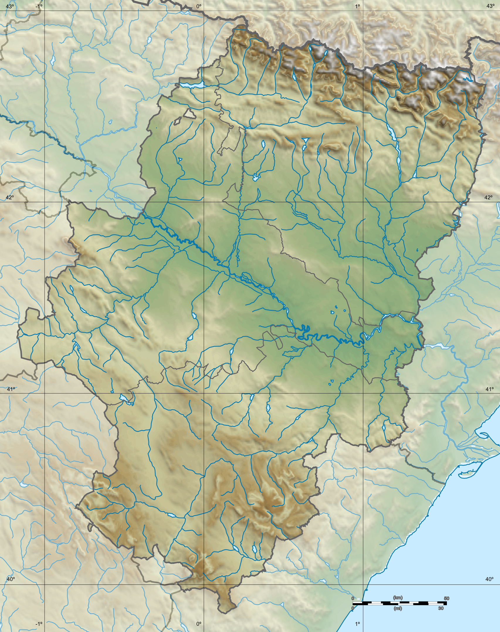 Location map relief of Aragón (Spain) Equirectangular projection, N/S stretching 120 %. Geographic limits of the map: N: 43.055249° N S: 39.750129° N W: 2.282836° W E: 0.858865° W